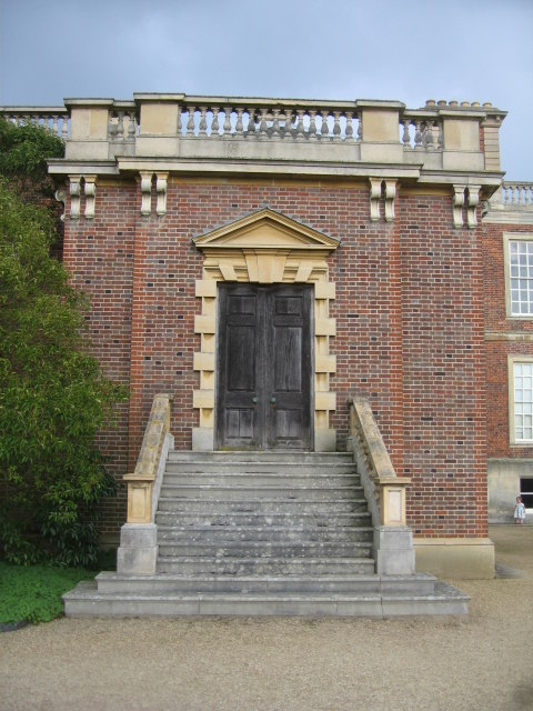 Western end of Wimpole Hall